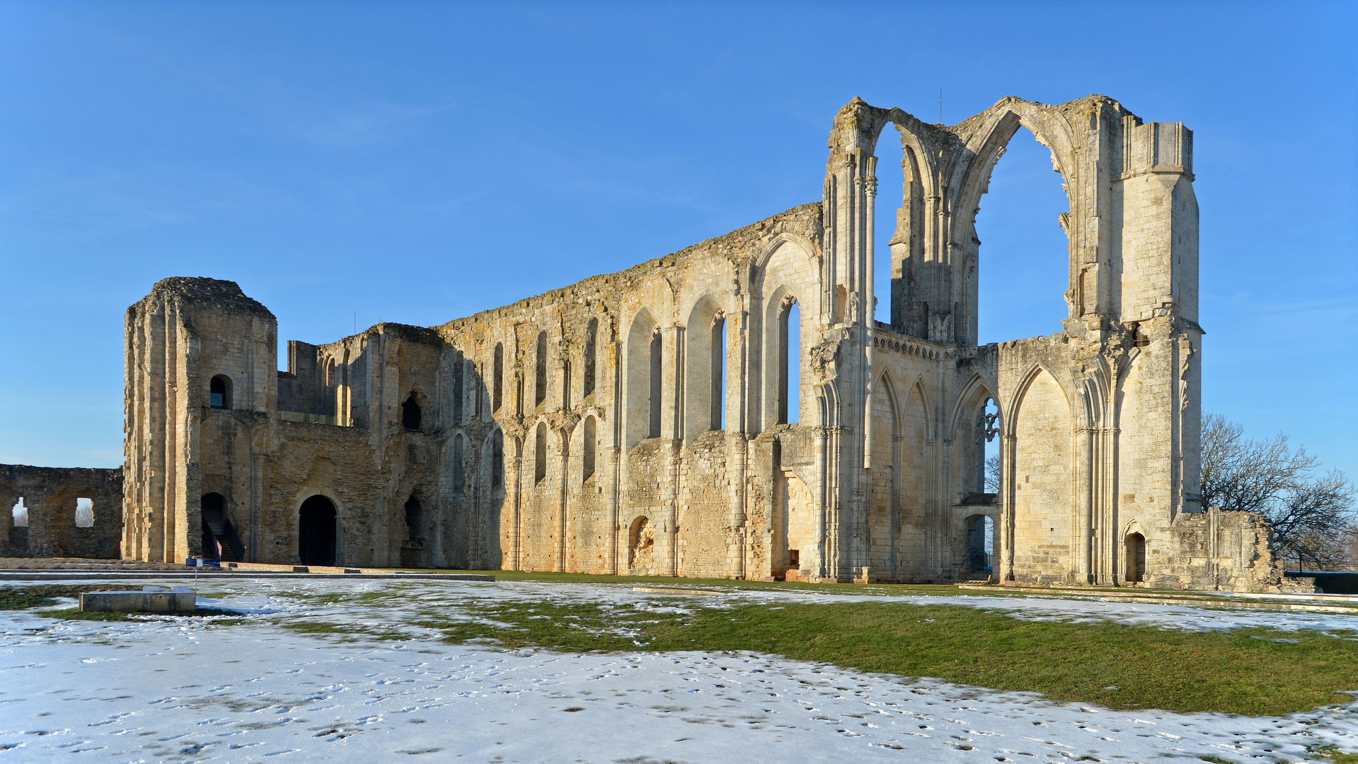 Saint-Pierre cathedral of Maillezais - Vendée, France .